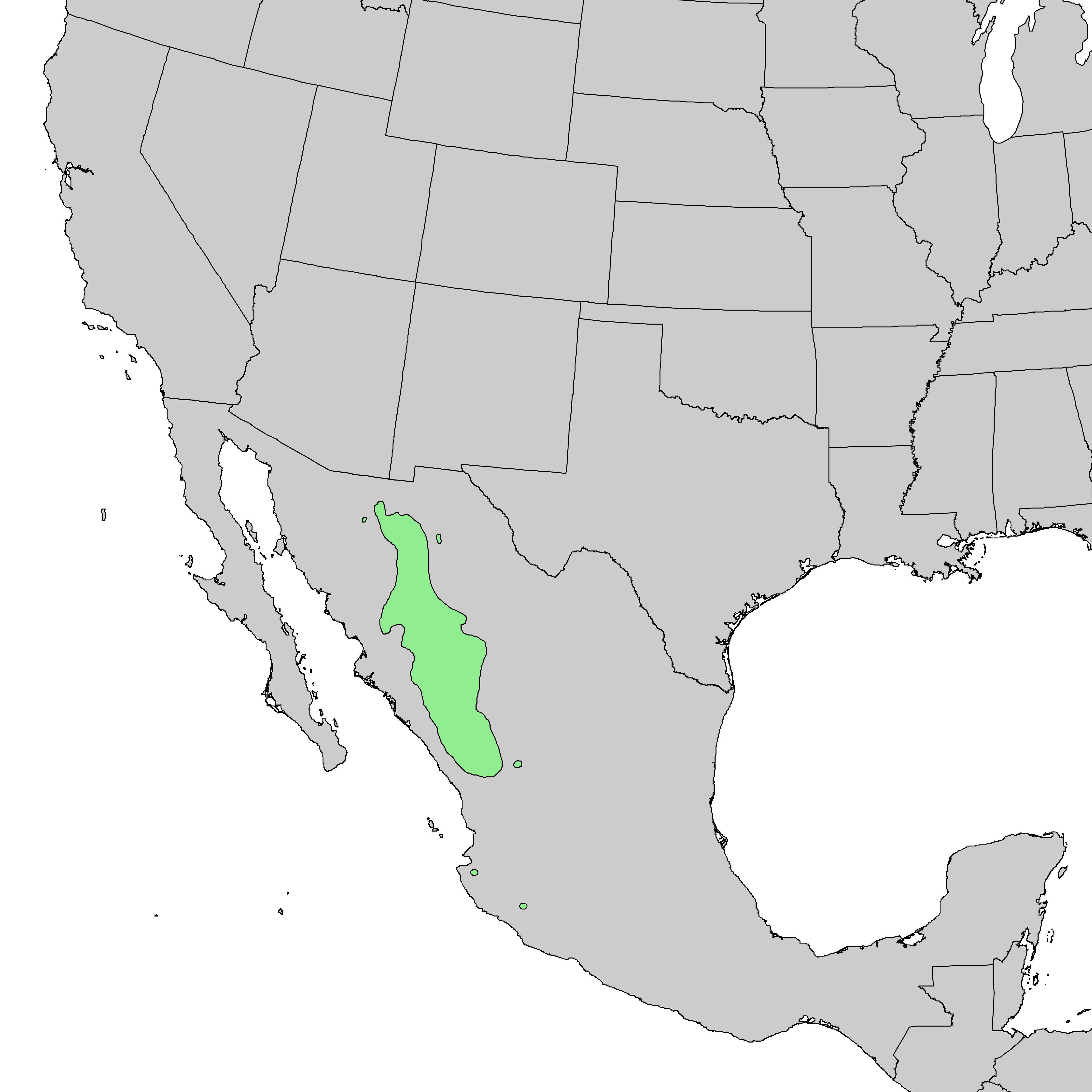 Natural distribution map for Pinus strobiformis